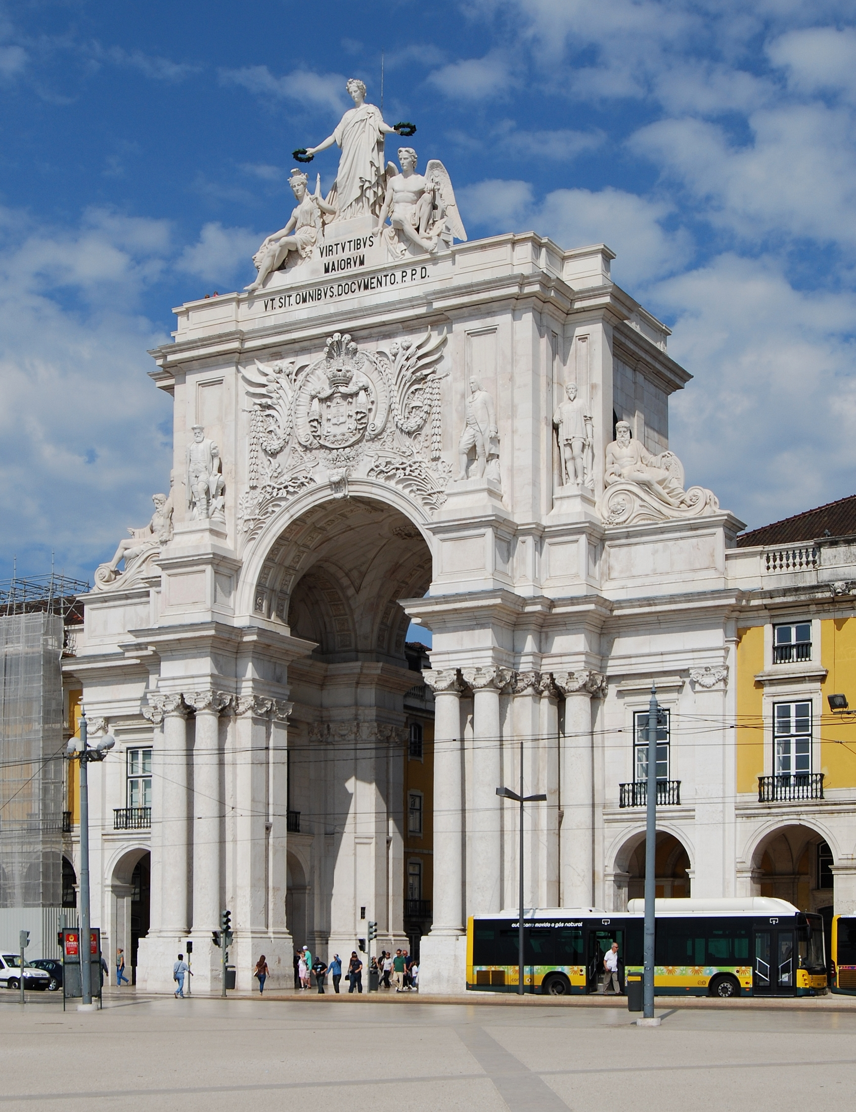 The triumphal arch Arco da Rua Augusta in the center of Lisbon.